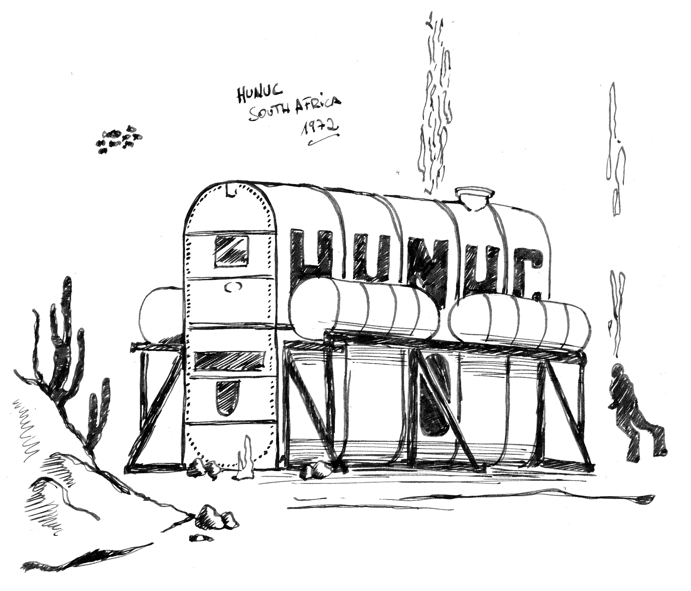 HUNUC (Habitat of the University of Natal Underwater Club) was 1972 the South Africa's first underwater habitat